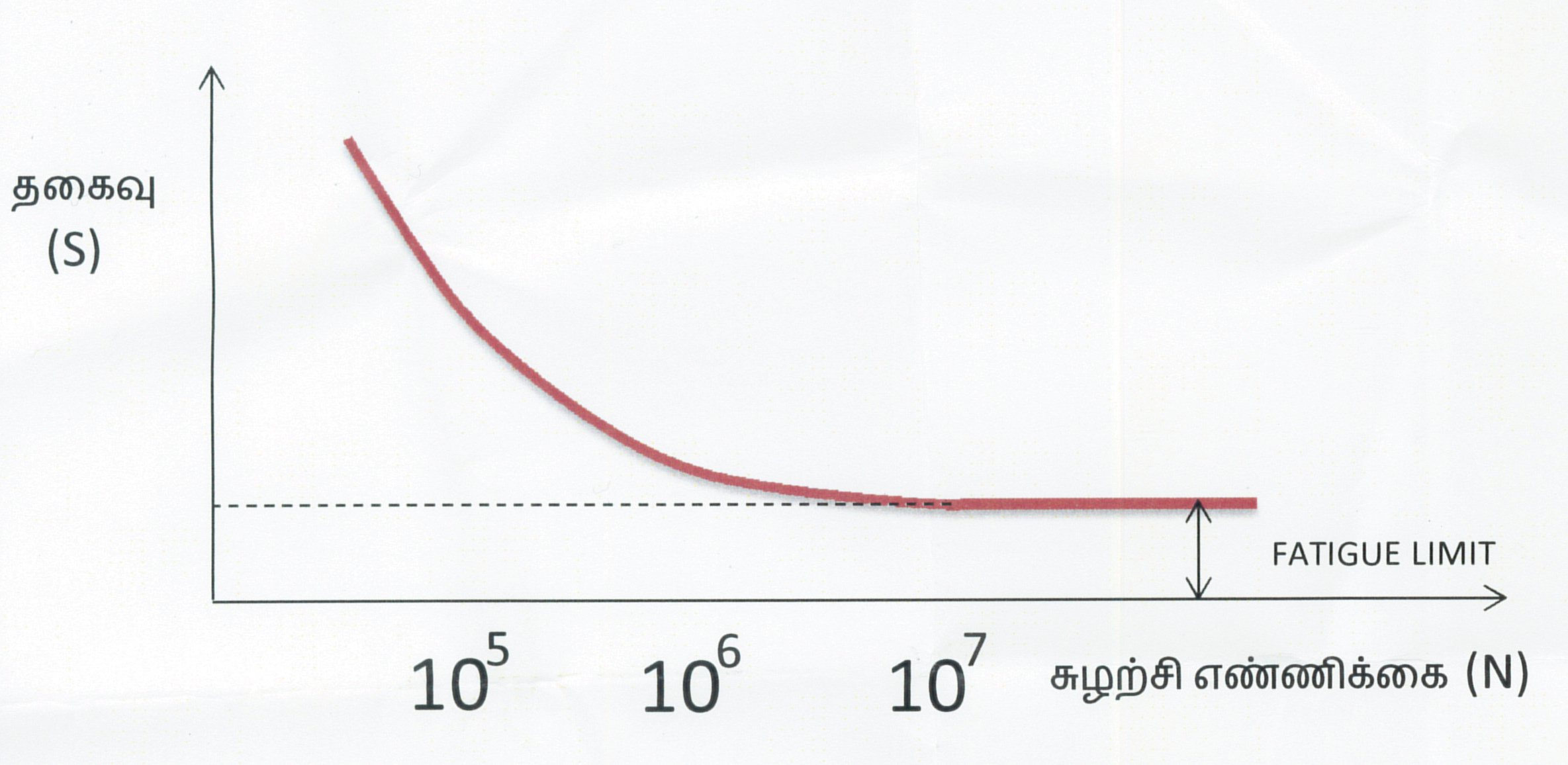 S-N CURVE